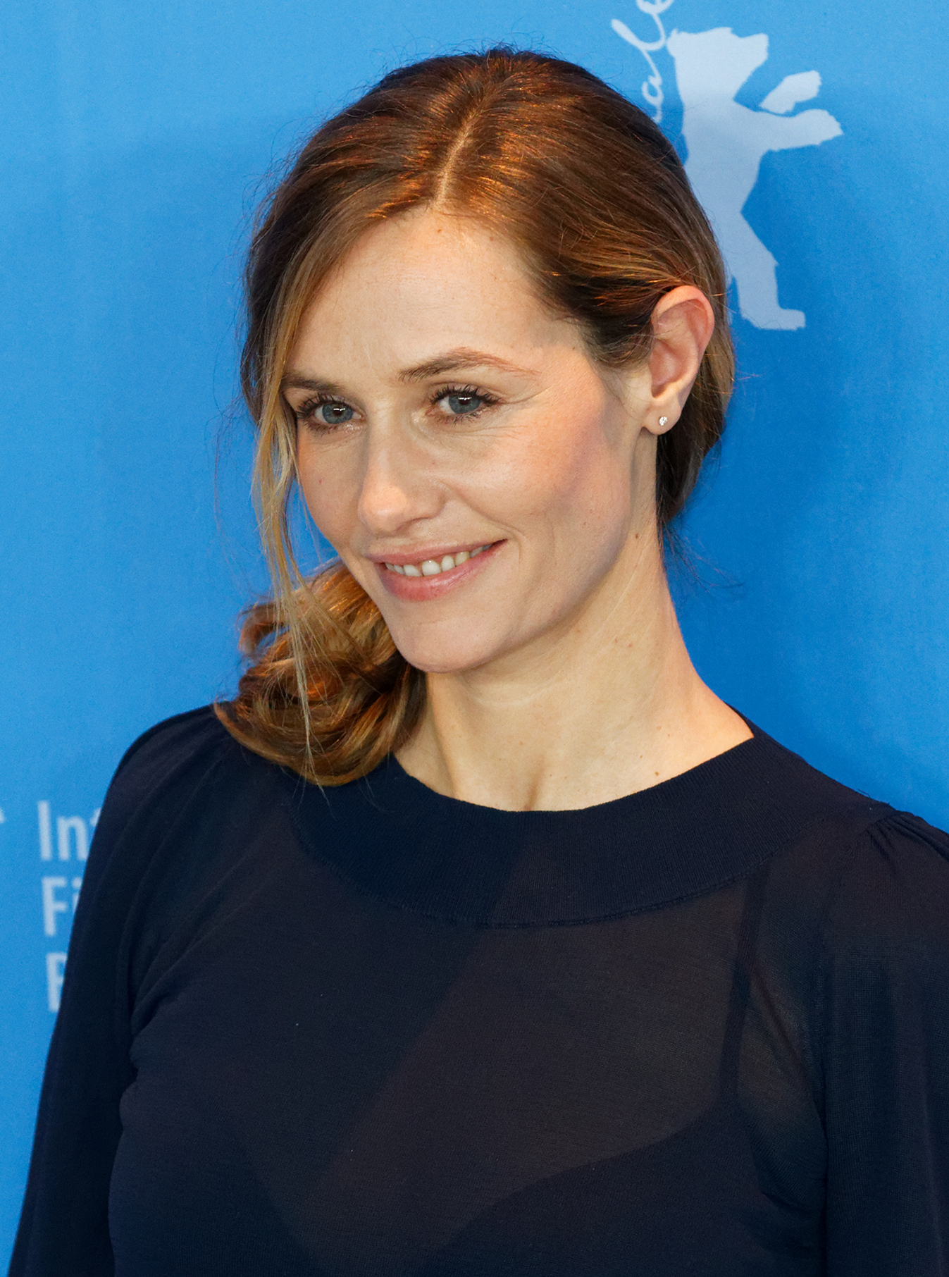 Belgium actress Cécile de France at the Photo Call to Django at the Berlinale 2017